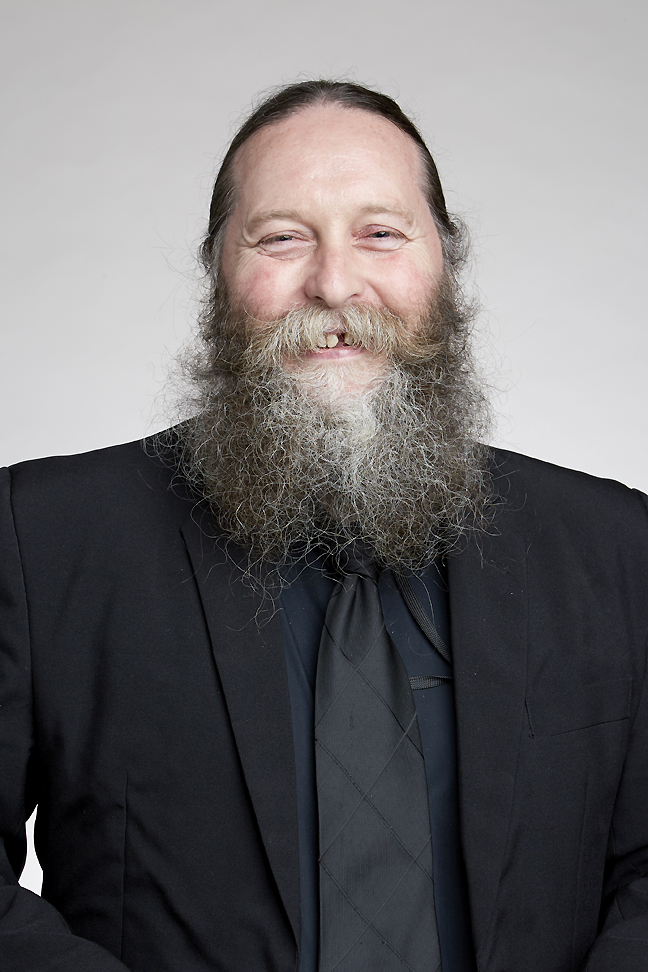 Pete Smith FRS FRSB FRSE is Professor of Soils and Global change at the University of Aberdeen where he directs the Scottish Climate Change Centre of Expertise, ClimateXChange. Attribution: The Royal Society